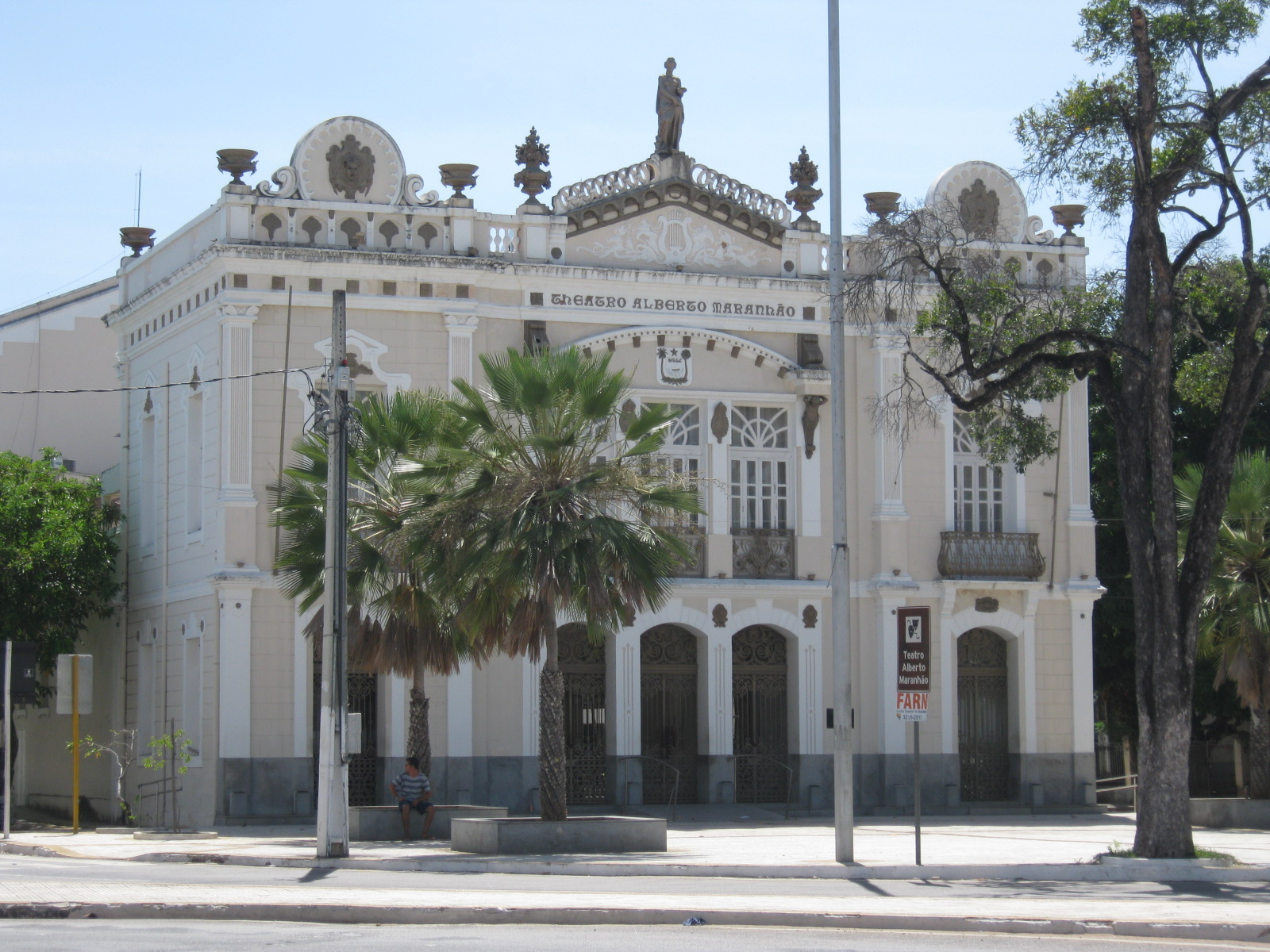 Alberto MAranhão Theatre.